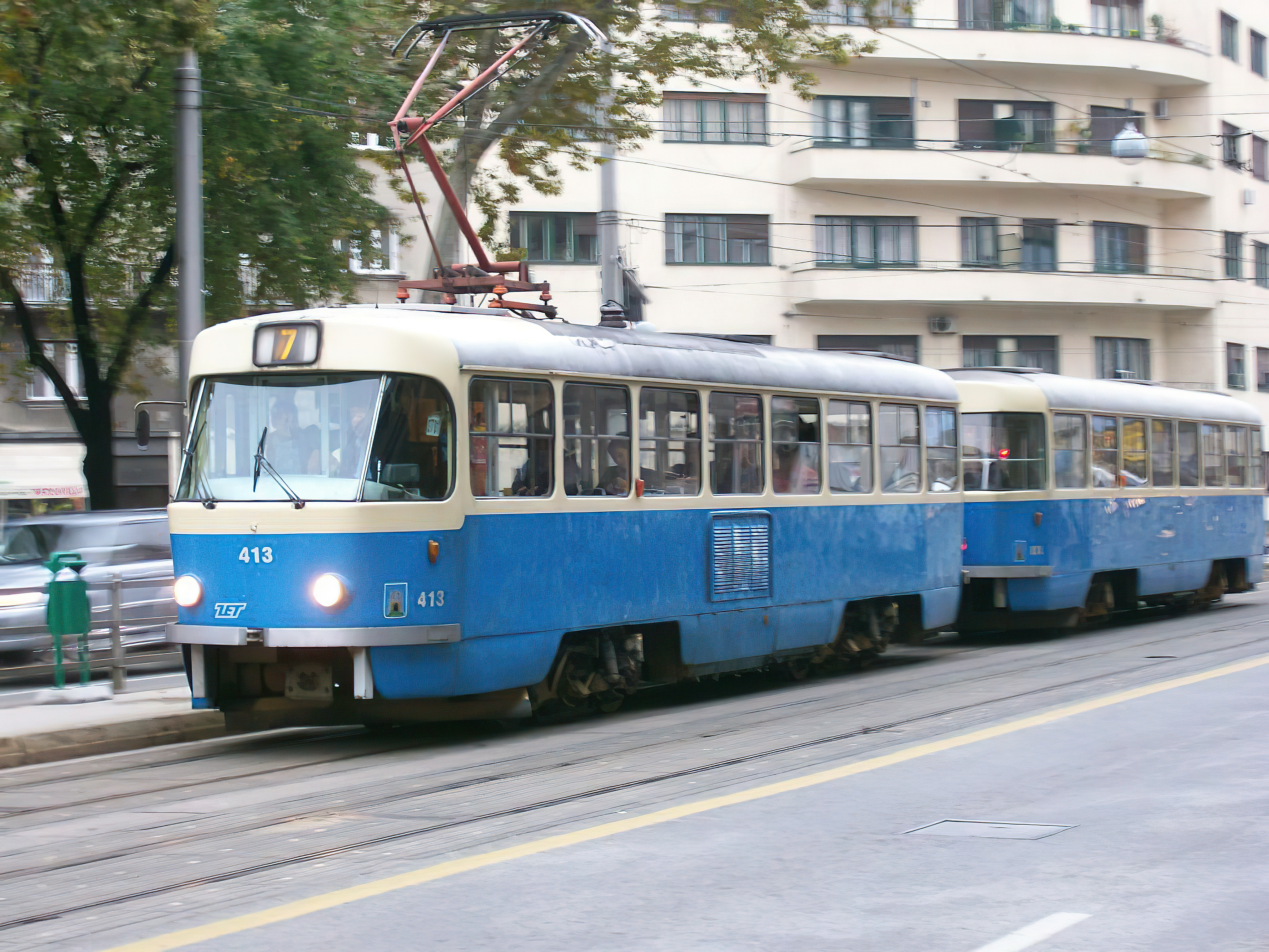 ČKD tatra T4, tip 401 Zagreb, Croatia